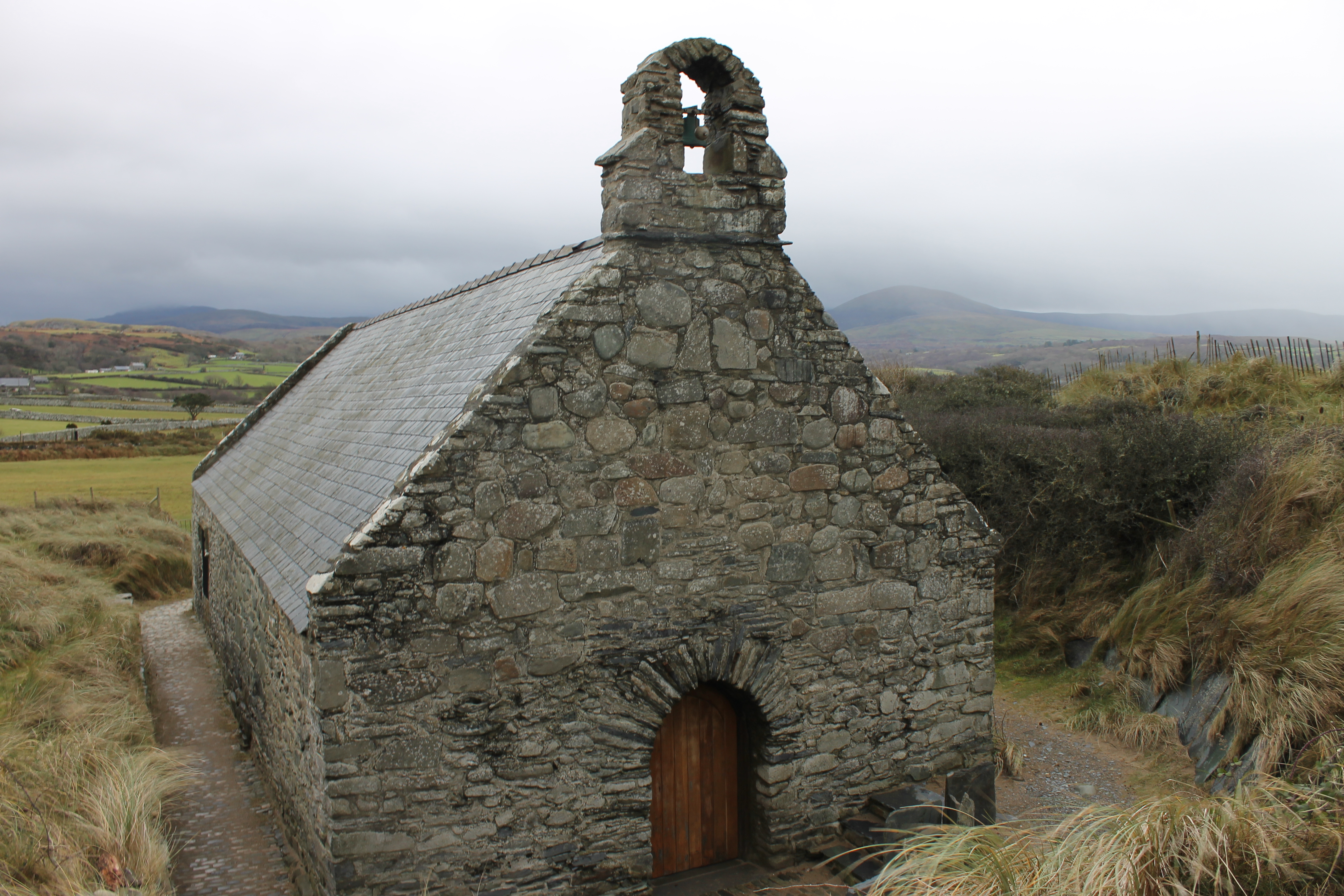 The beach at Llandanwg, near Harlech, Gwynedd, North Wales.